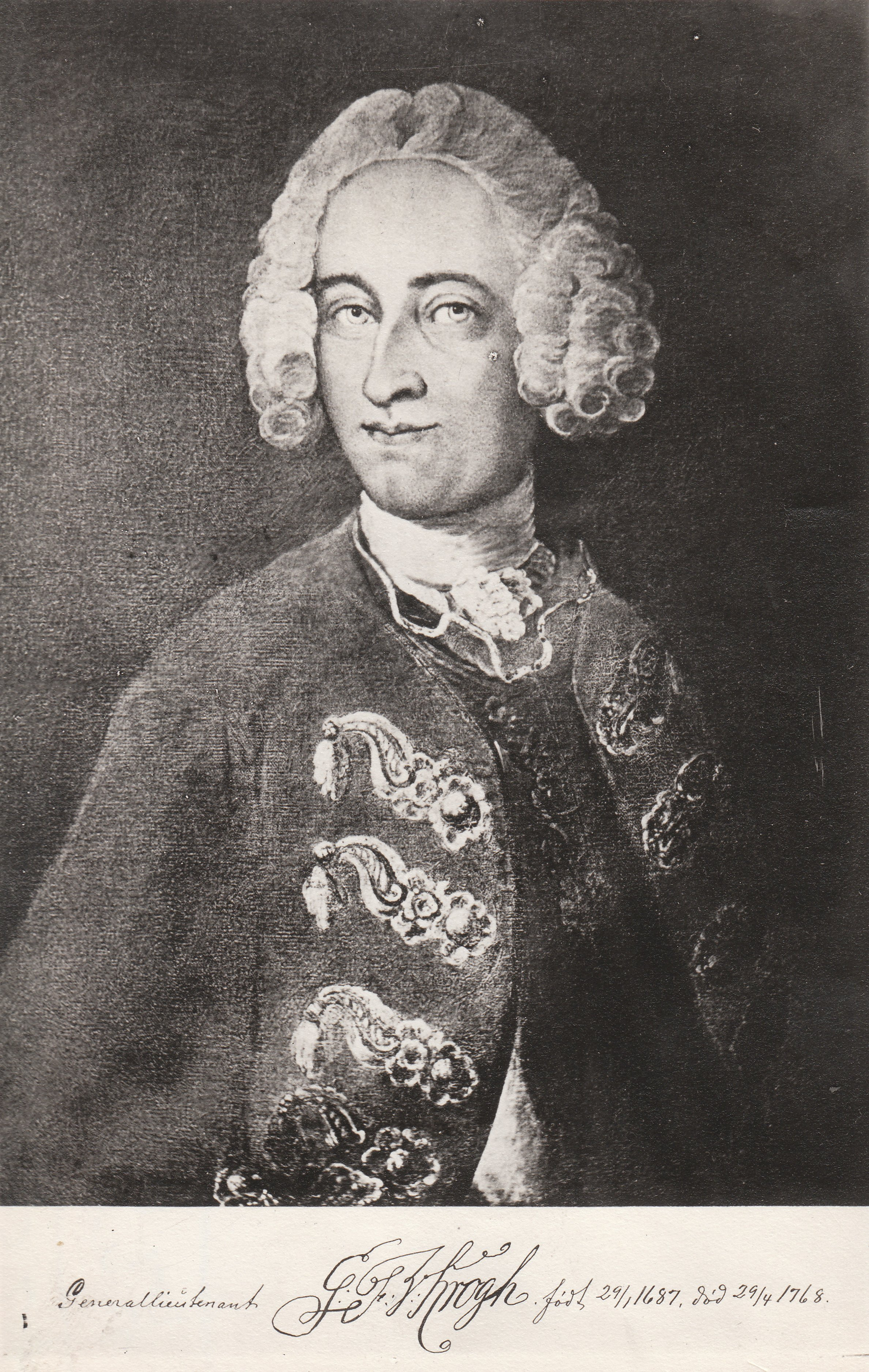 Georg Frederik von Krogh, Dano-Norwegian Lieutenant General